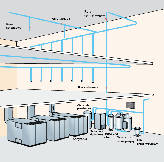 Ecample compressed air installation including such elements as: compressors, refrigeration dryer, desiccant dyer, air receiver, filter and also air net piping system leaded all over production hall.